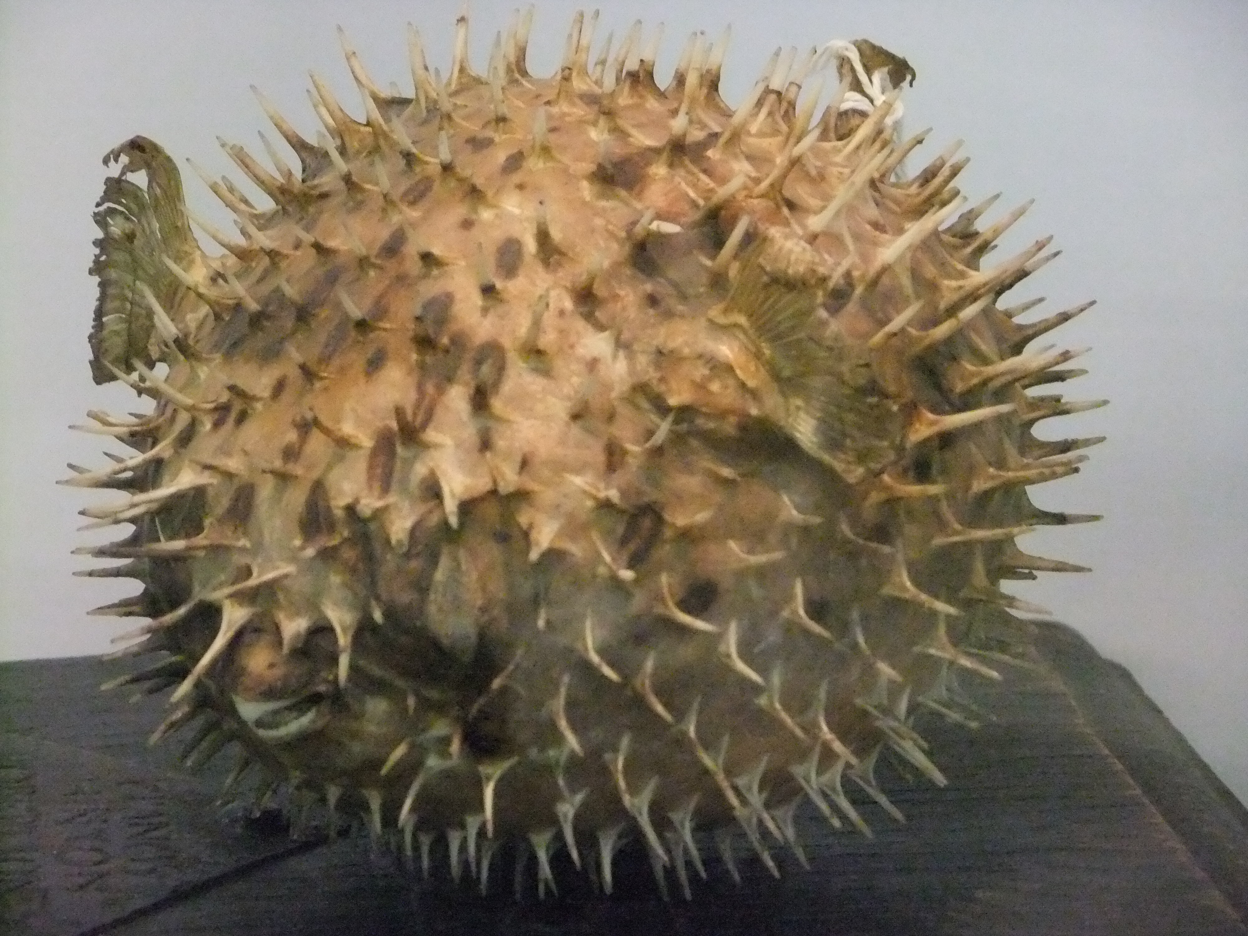 Porcupine fish. Photo taken at Ludlow Museum, Castle Street, Ludlow, Shropshire, England.